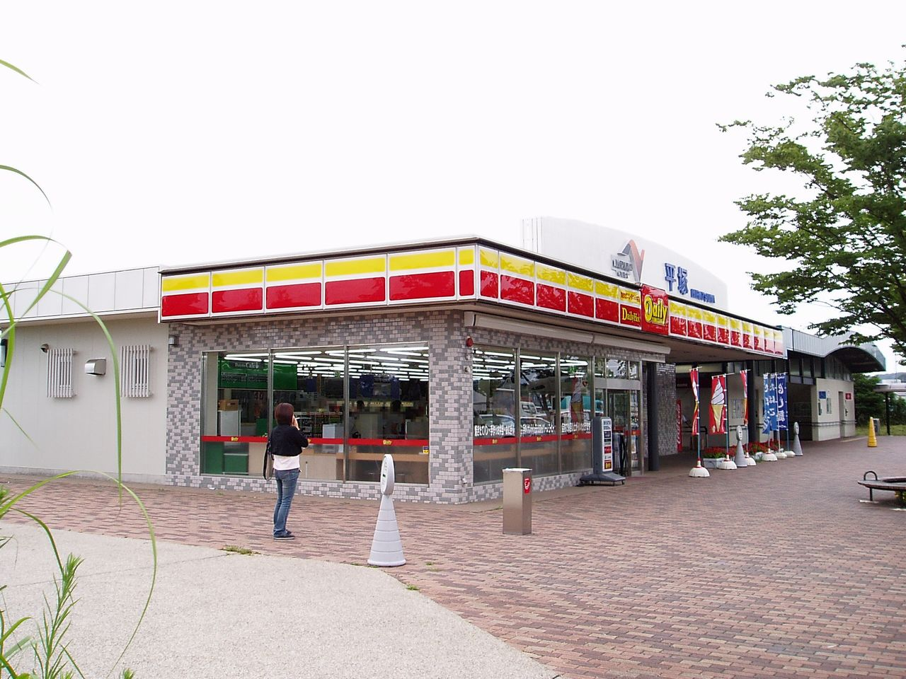 Hiratsuka Periking Area, Route 271 in Japan